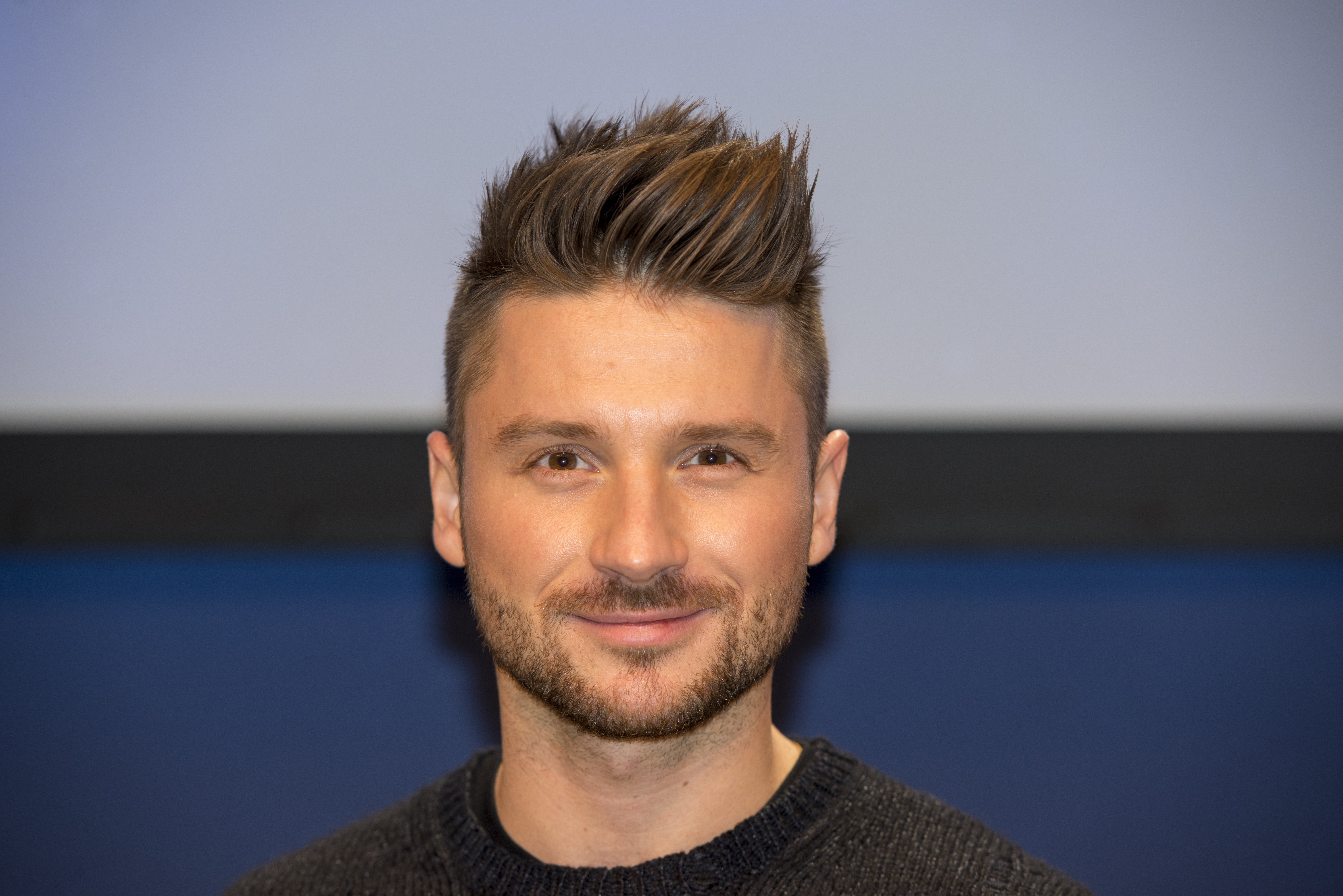 Sergey Lazarev at a Meet & Greet during the Eurovision Song Contest 2016 Stockholm. (Help translate this text)